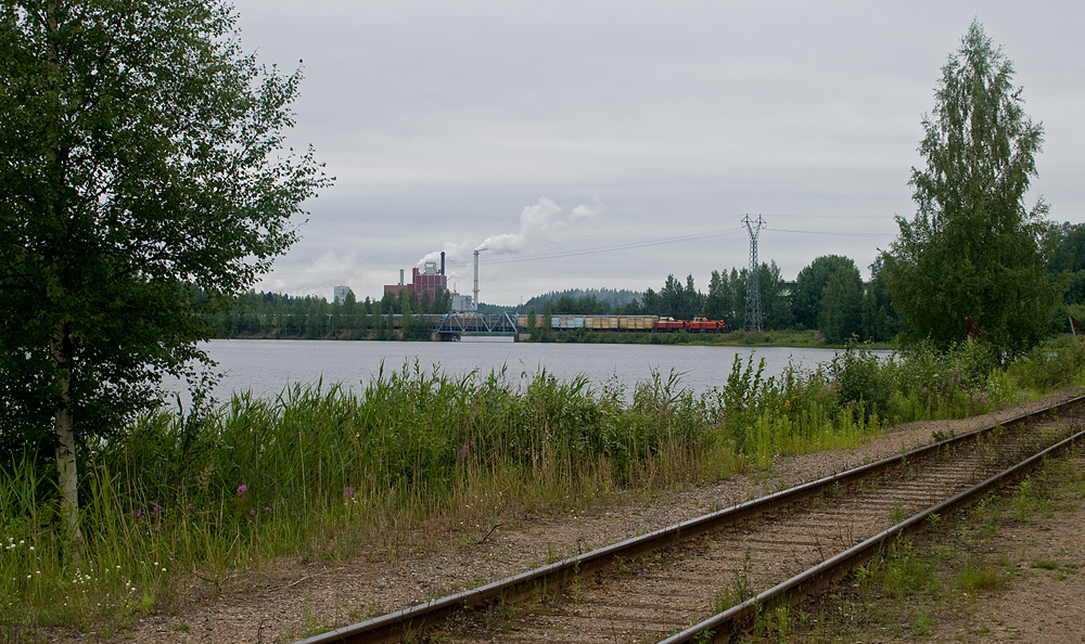 Rautsalo railway in Heinola, Finland